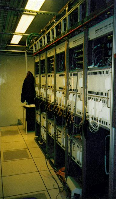 Racks of STM-16 SDH multiplexers made by Alcatel installed in Paris